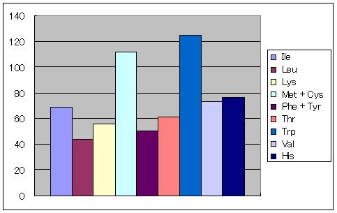 Amino Acid Score of Cassava